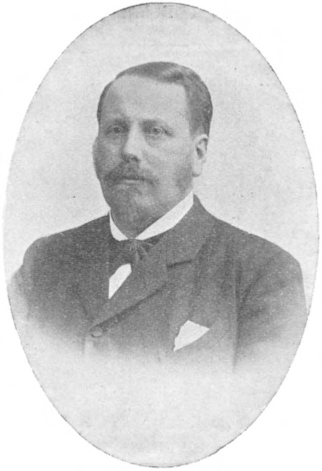 nameC. LELY political affiliationprogressive liberalism positionmember of the House of Representatives of the Netherlands districtAmsterdam II